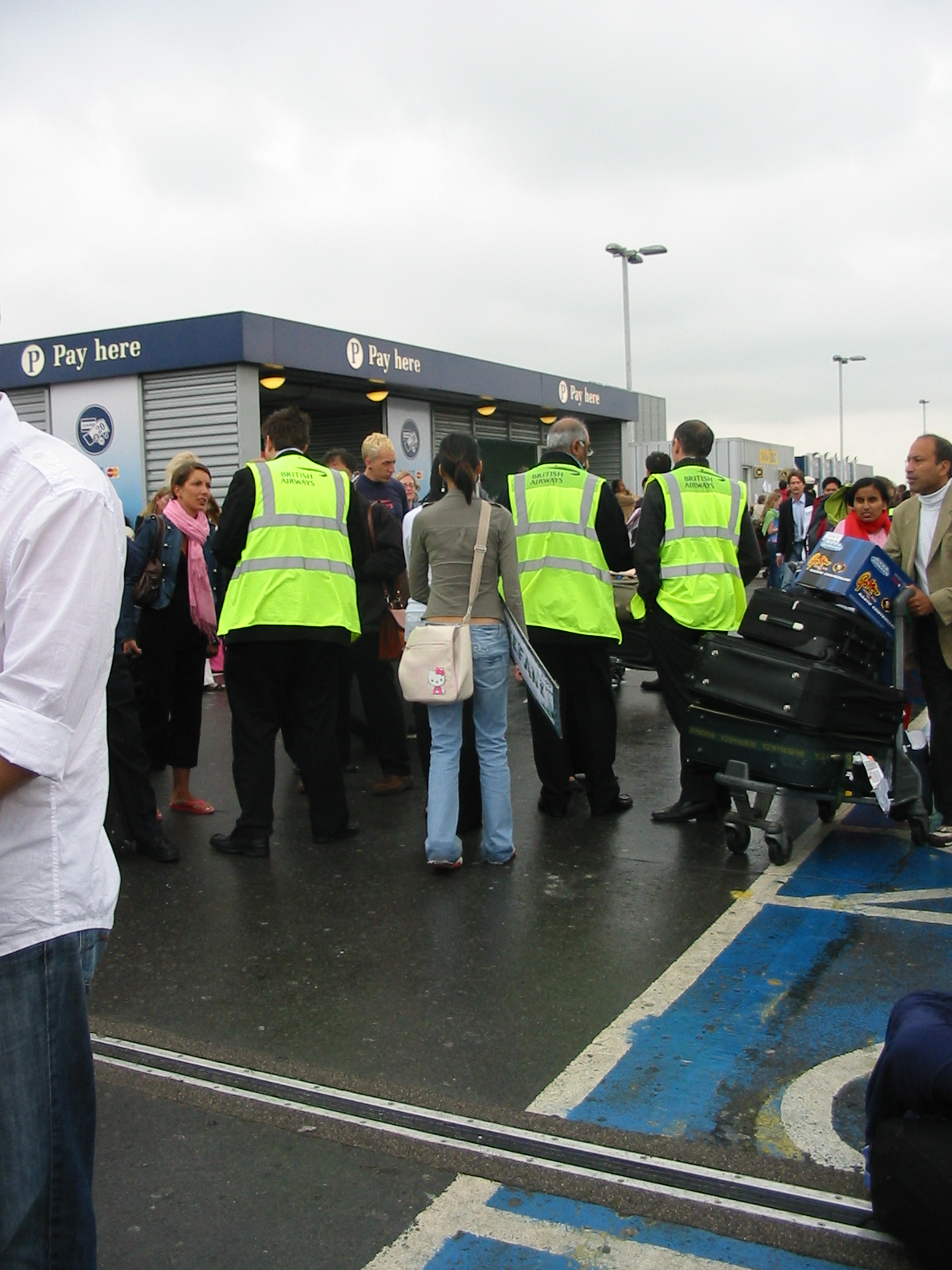 British Airways personnel giving information Heathrow 14 august 2006 Picture taken during a delay due to the safety measures taken at Heathrow in order to prevent terrostic actions aboard aircraft. Due to these measures many flights were delayed and passengers could not wait inside the terminal building. On the parking lot tents were erected to give people a place to stay while waiting for their flight to depart. Picture taken by Gebruiker:Ellywa